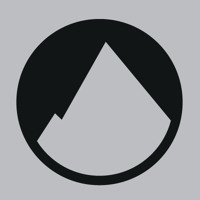 Erased Tapes Records logotype.